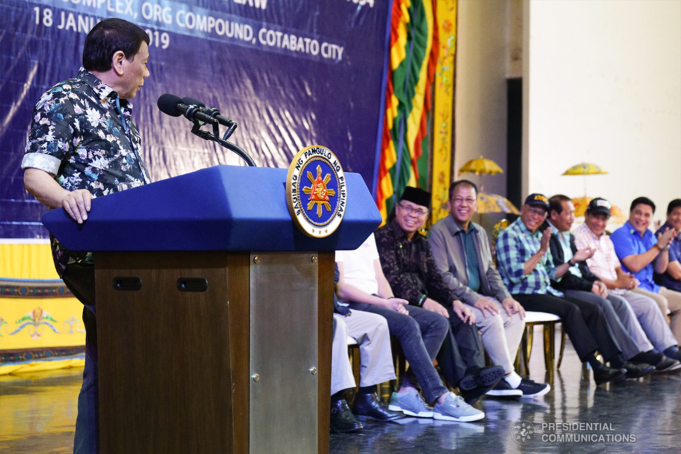 President Rodrigo Roa Duterte shares a light moment with distinguished guests while delivering his speech during the Peace Assembly for the Ratification of Republic Act No. 11054 or the Bangsamoro Organic Law (BOL), held at the Shariff Kabunsuan Cultural Complex Compound in Cotabato City on January 18, 2019. ARMAN BAYLON/PRESIDENTIAL PHOTO